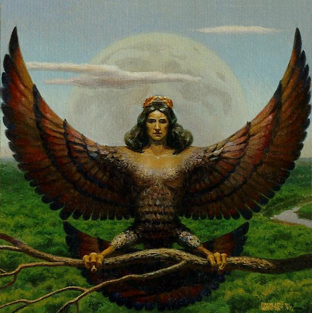 "Harpy"